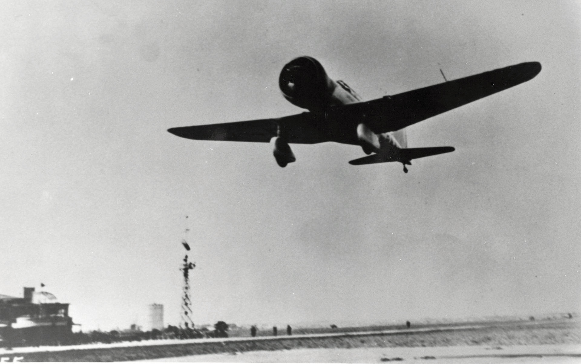 Mitsubishi Karigane in flight